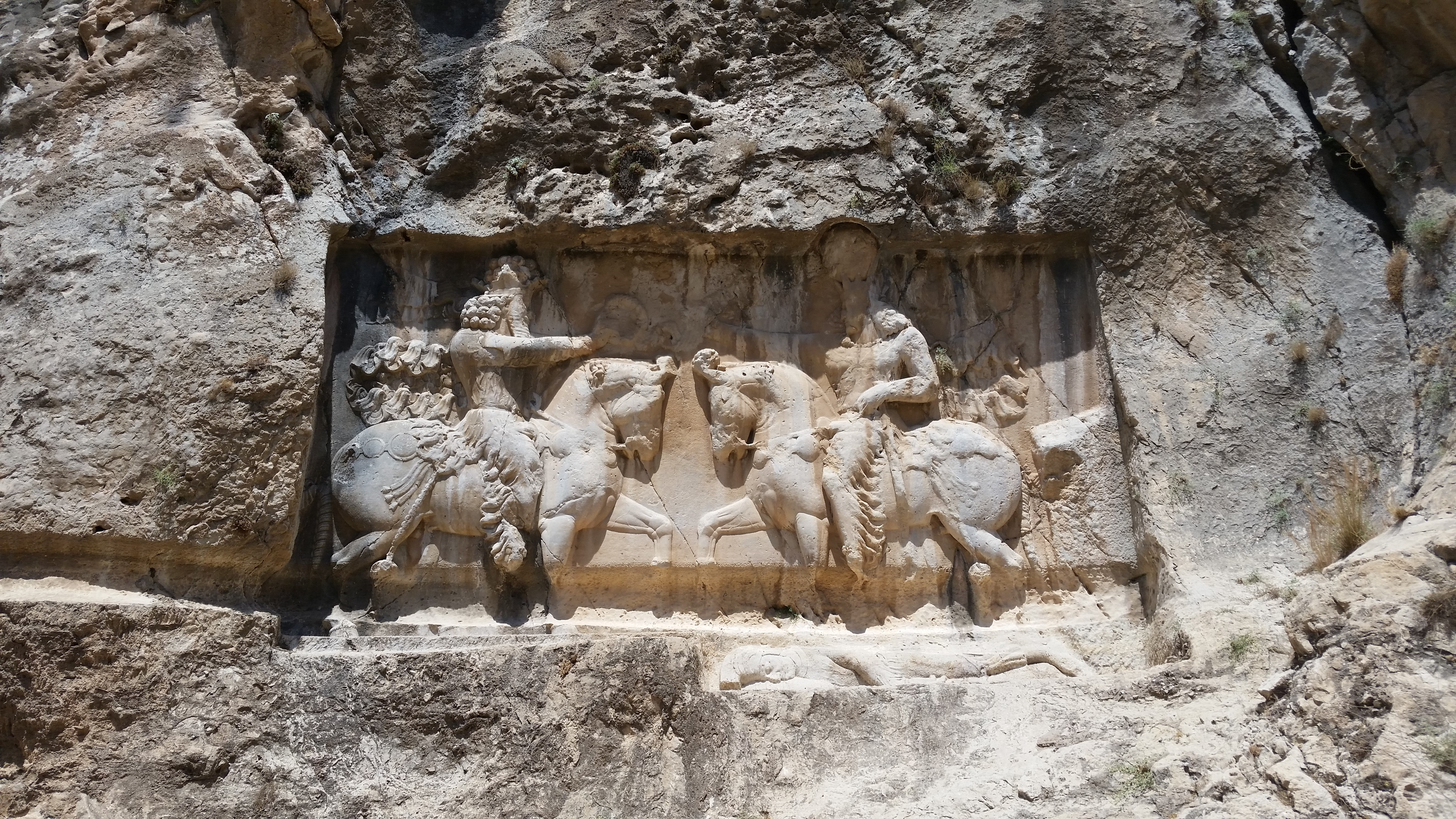 The rock relief of Bahram I receiving the royal diadem from the Zoroastrian supreme god Ahura Mazda, at the ancient city of Bishapur.